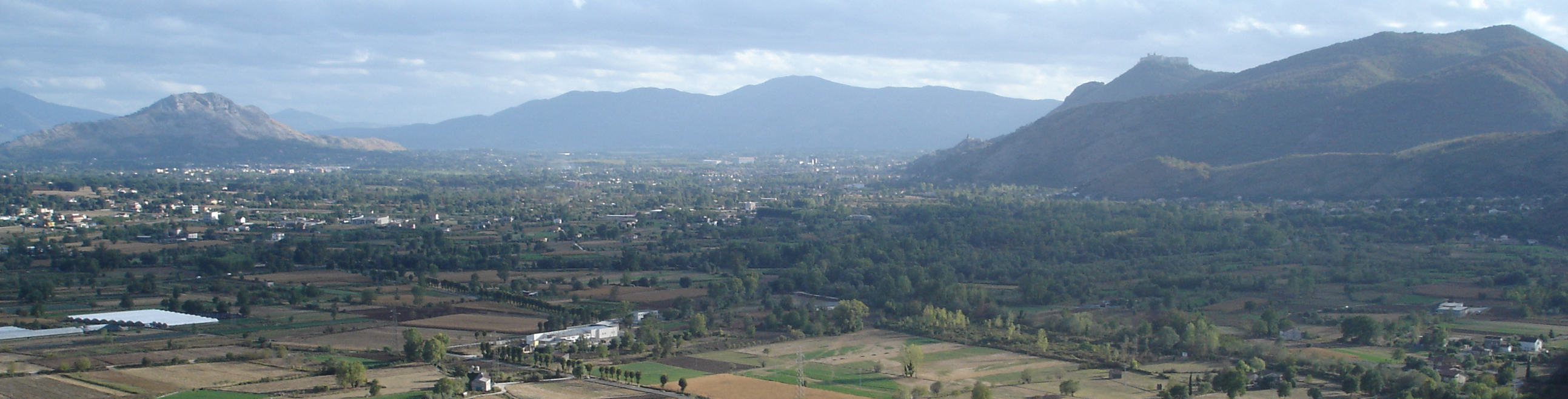 A view of the Terra Sancti Benedicti (Town of Cassino, Province of Frosinone, Lazio, Italy).